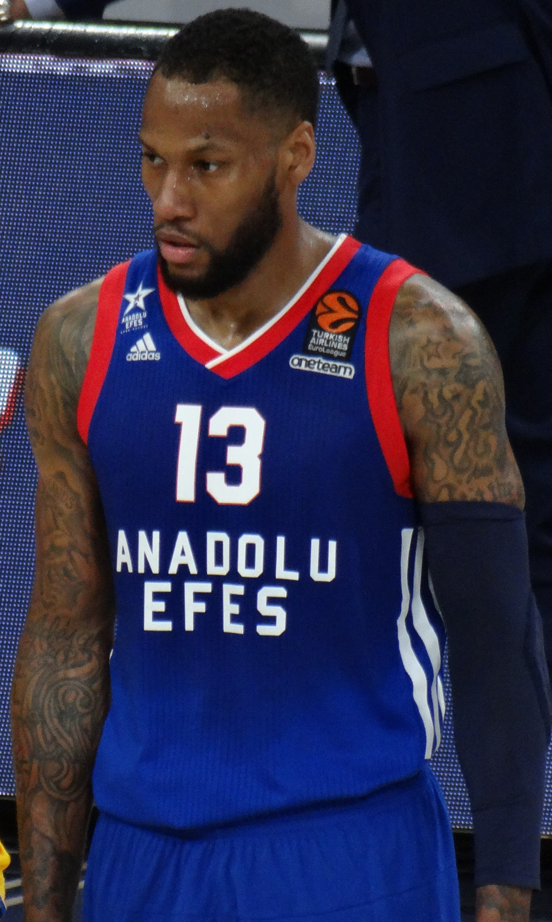 Sonny Weems 13 Anadolu Efes EuroLeague 20180321